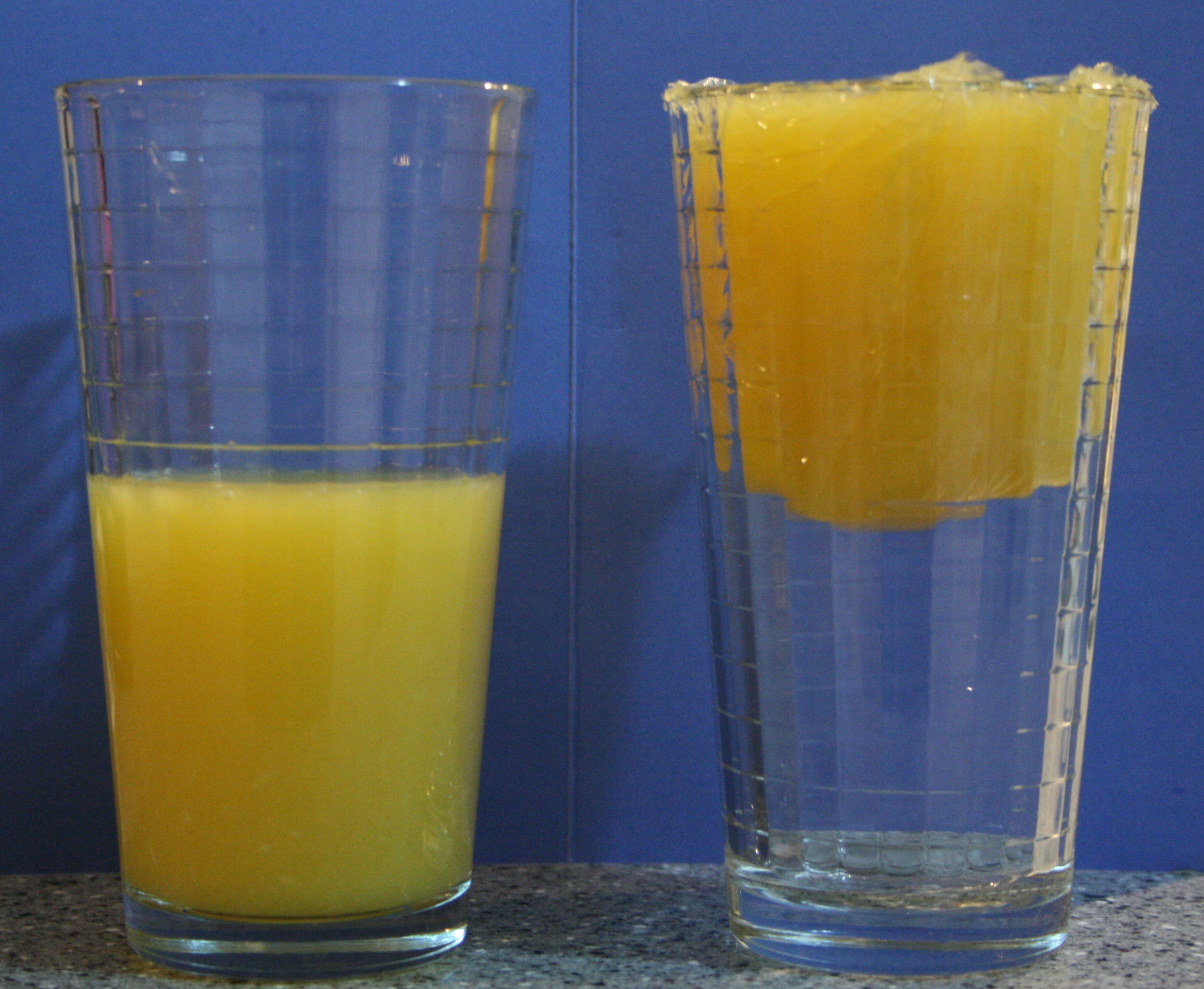 One glass is half full and the other one is half empty. But which one is which?